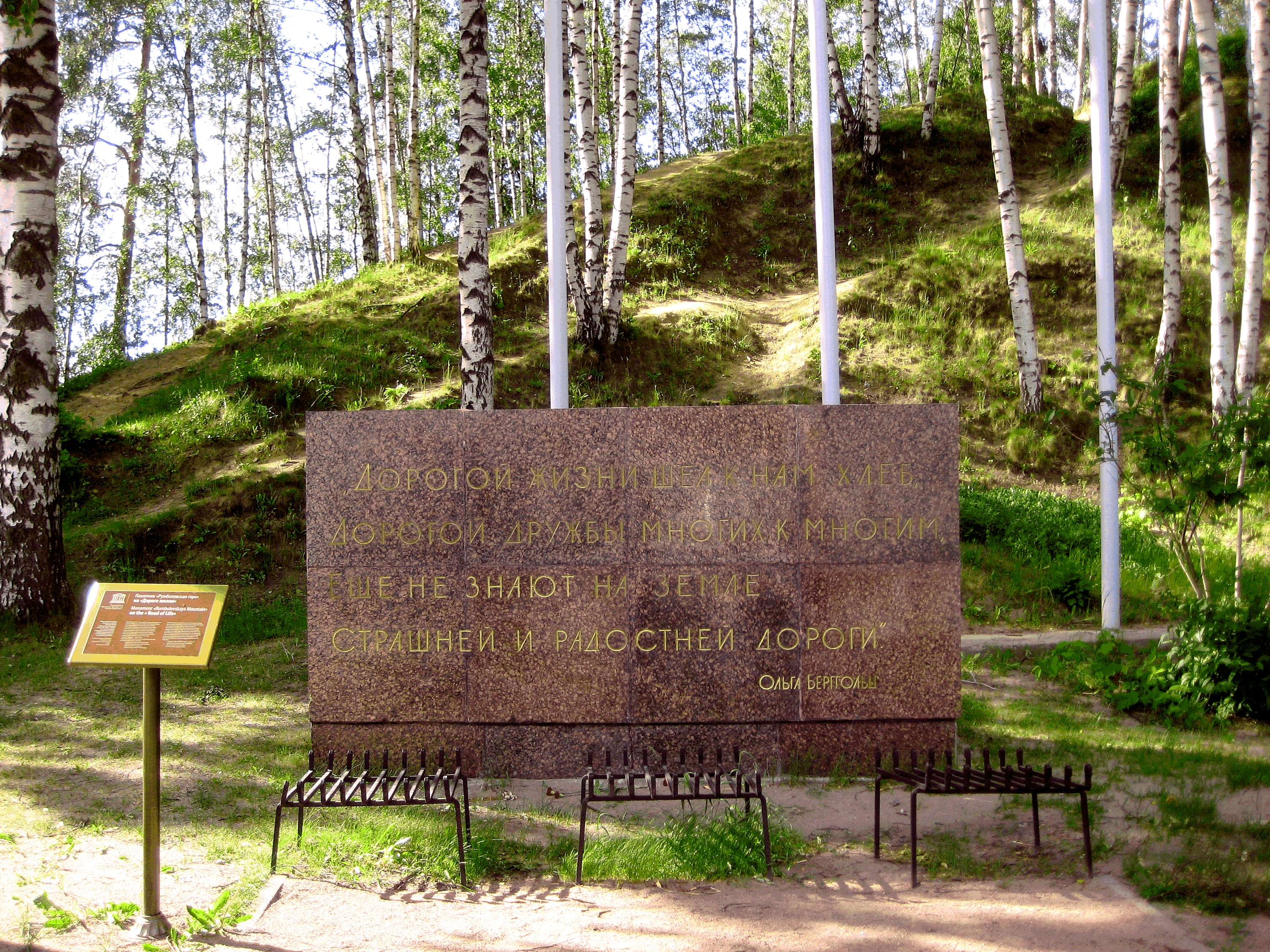 "Rumbolovskaya Mountain". Memorial in memory of the defense of the city in 1941-1944. 'Green Belt of Glory of Leningrad': Rumbolovsky Heights, 10 km "Roads of Life", at the intersection with Koltushsky Highway, Vsevolozhsk, Vsevolozhsky District, Leningrad Region